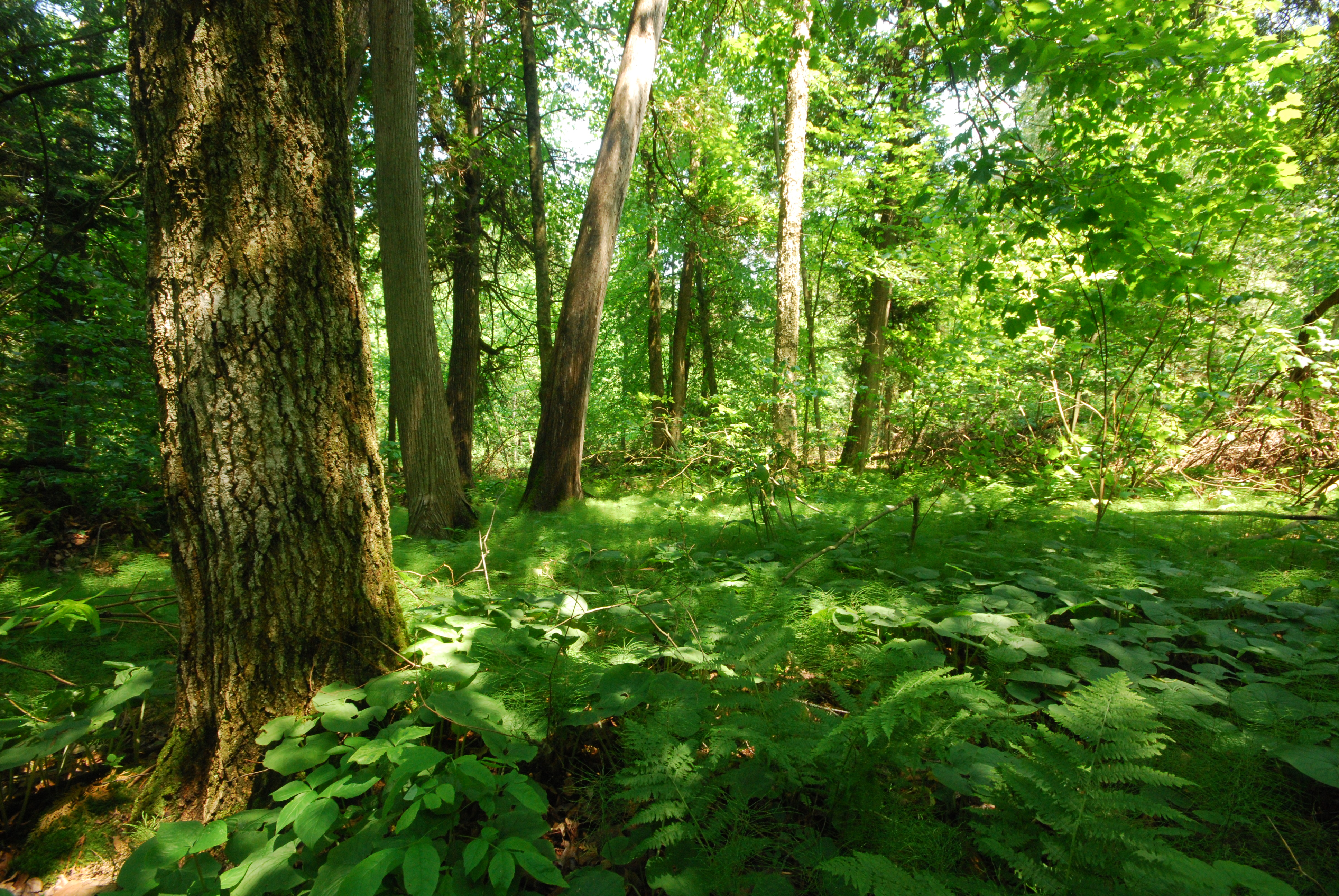 Cherney Maribel Caves